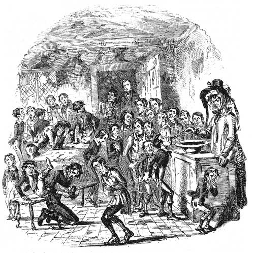 Illustration for Nicholas Nickleby by Hablot Browne